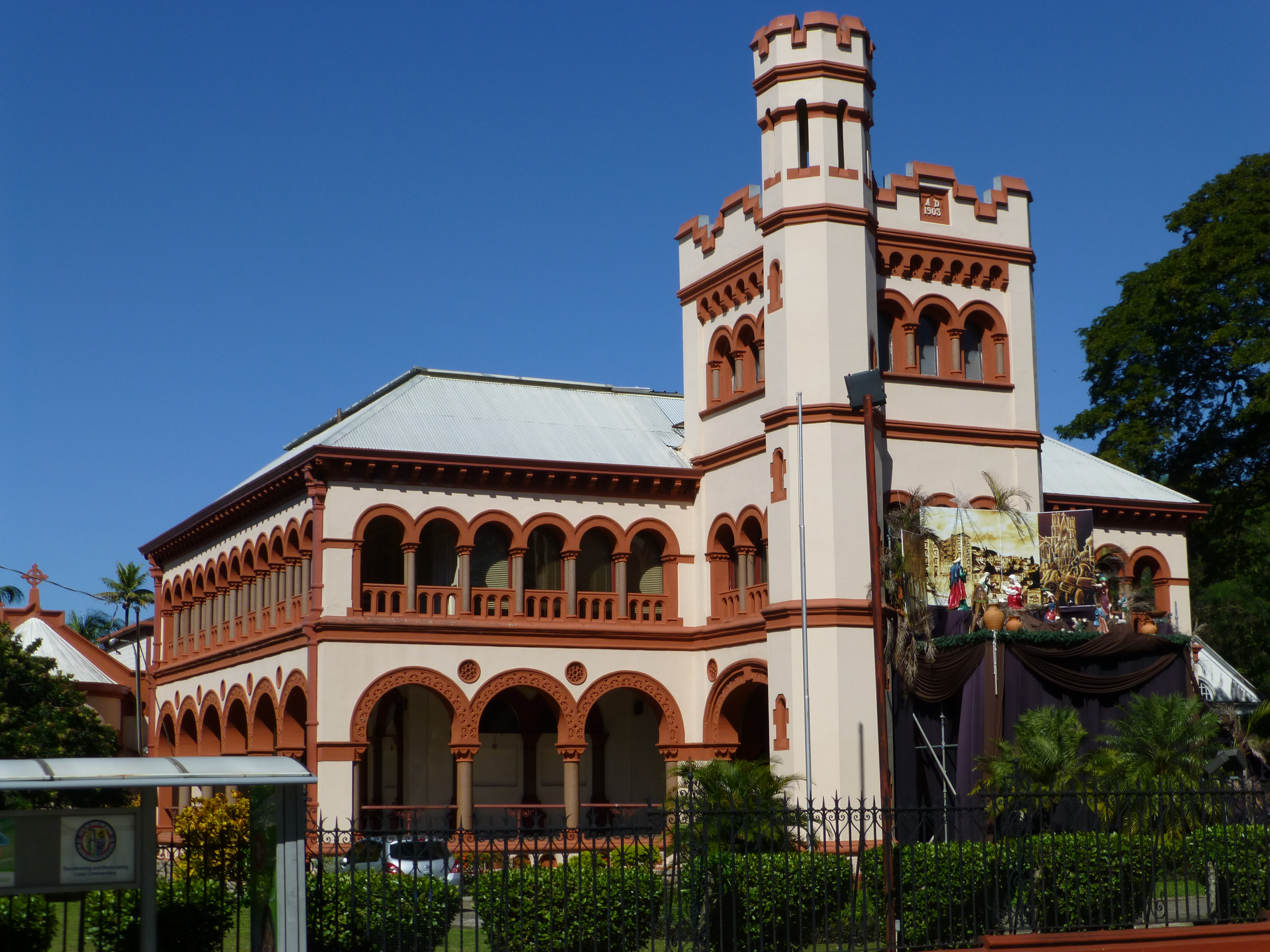 Archbishop's Palace, Magnificent Seven, St. Clair, Port of Spain, Trinidad.